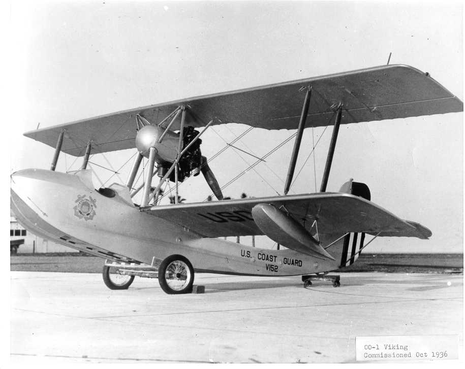 A U.S. Coast Guard Franco-British Aviation Viking OO-1, in October 1936.